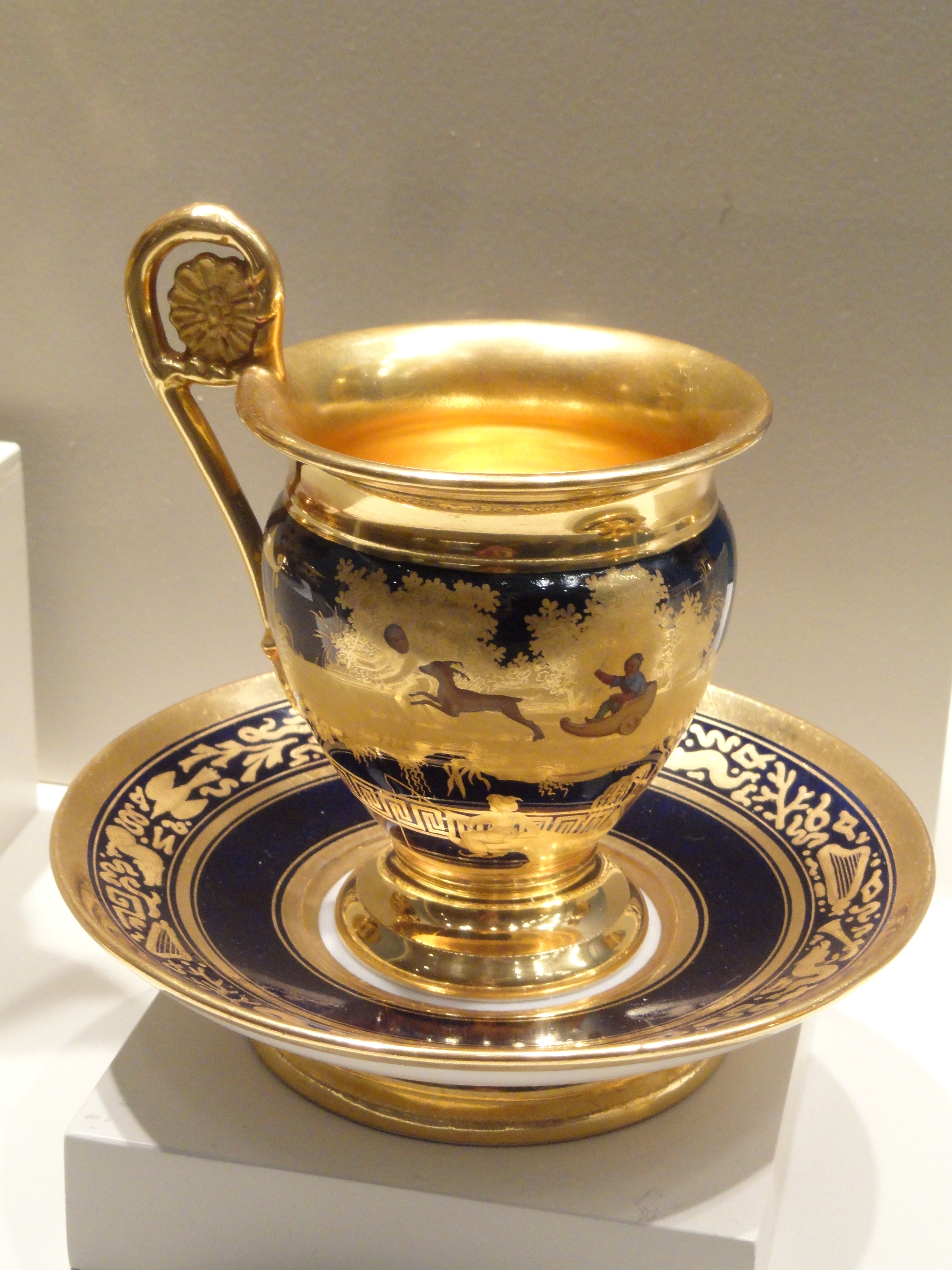 Exhibit in the Art Institute of Chicago, Chicago, Illinois, USA. This artwork is in the public domain because the artist died more than 70 years ago.